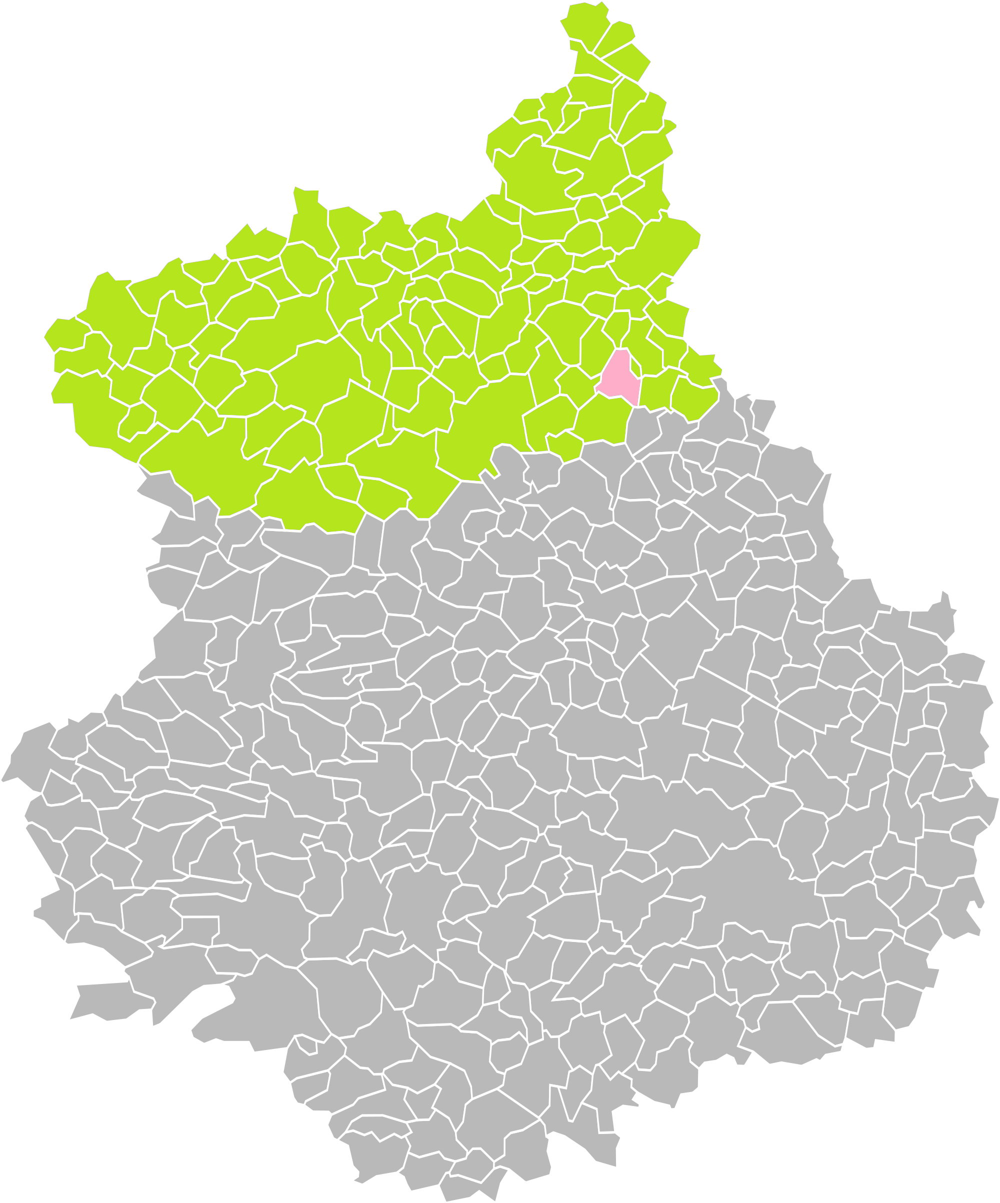 Location of the commune of Nogent-le-Roi in the arrondissement of Dreux (Eure-et-Loir)